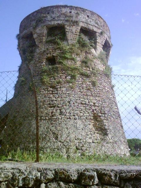 The paestum tower